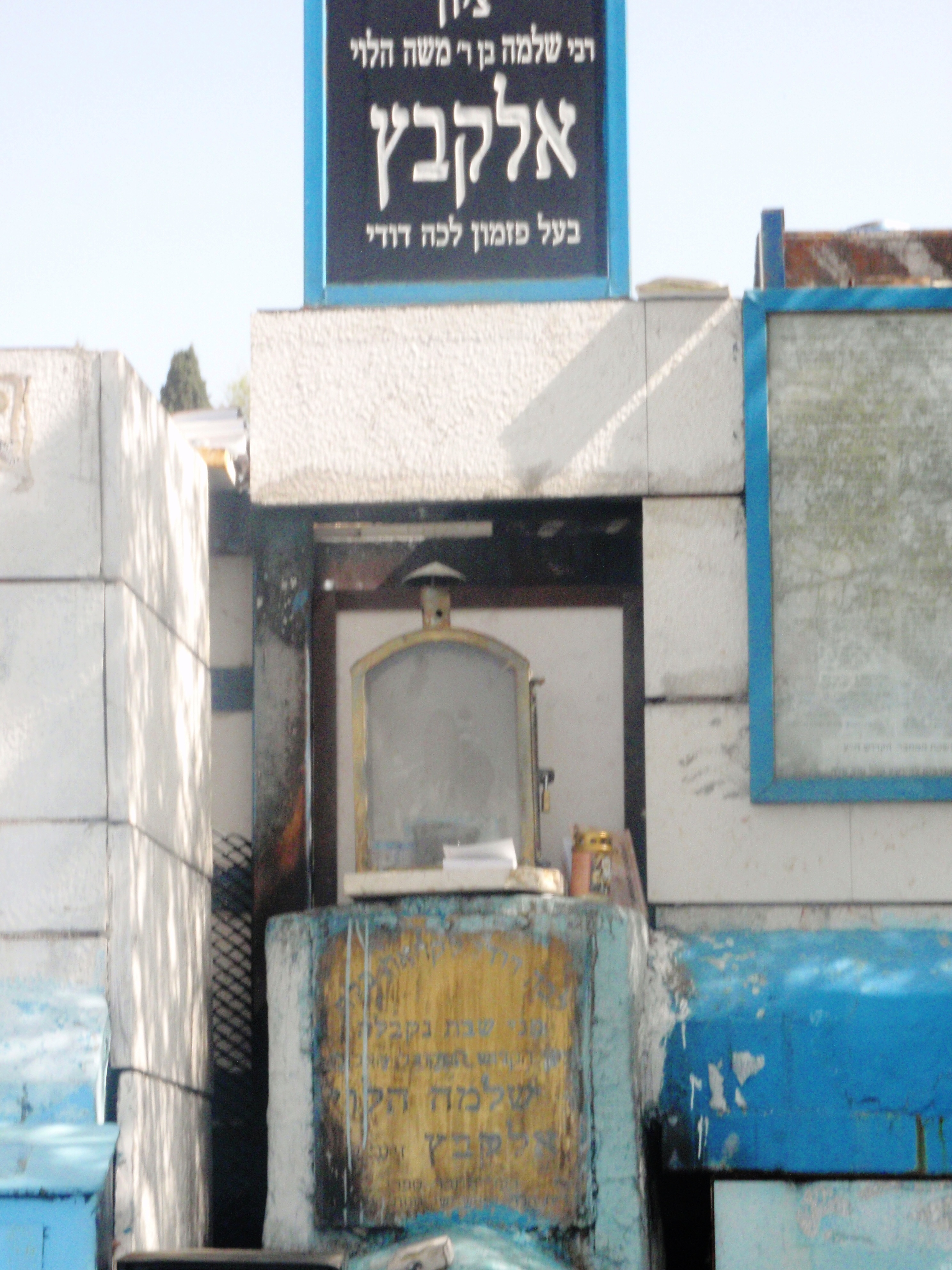 Grave of Shlomo Halevi Alkabetz